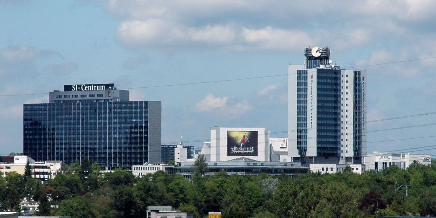 convention and entertainment center "SI-Centrum" in Stuttgart-Möhringen, position: Stuttgart-Fasanenhof industrial park